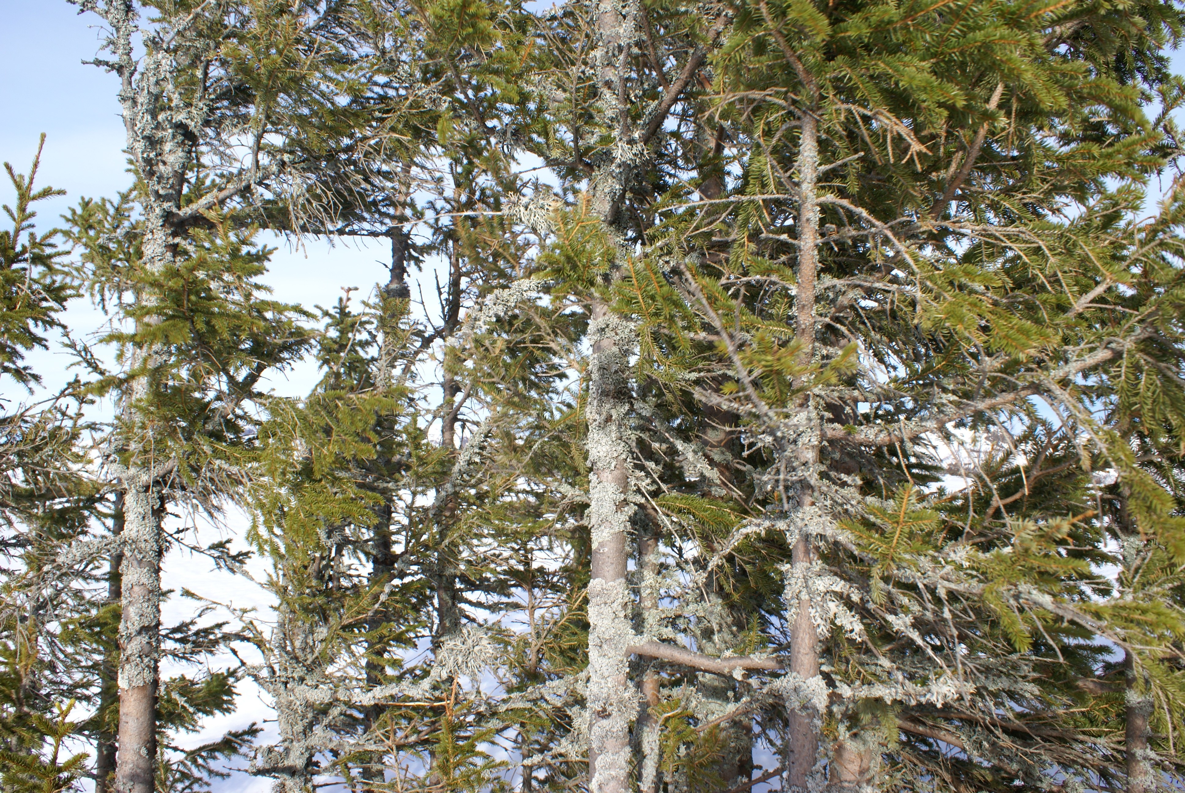 Mountain spruce